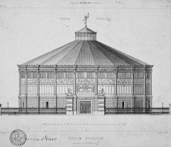 Cirque d'hiver, draw 1841 by Jakob Ignaz Hittorf (died 1867)